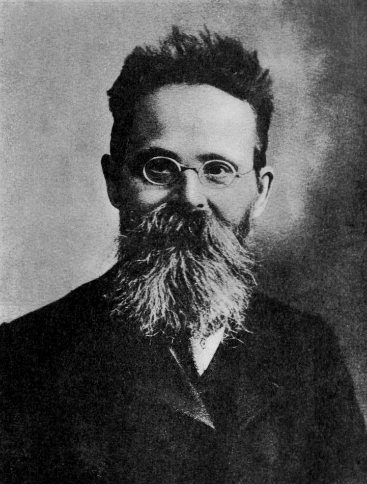 Russian revolutionary Nikolay Morozov